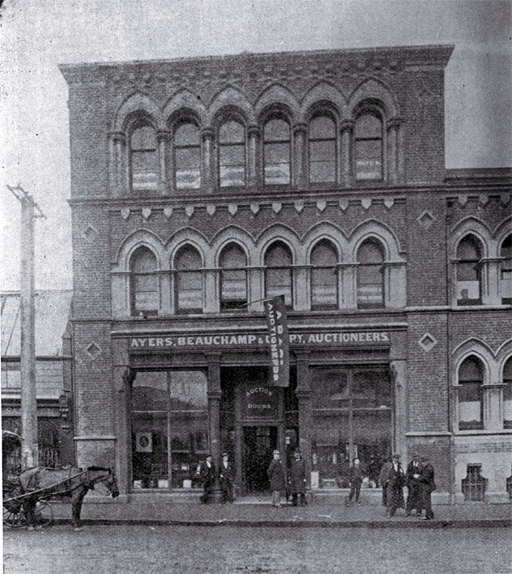 Ayers, Beauchamp & Compy, 190 Cashel Street, Christchurch. This firm of general auctioneers was established in 1860. Land sales were held here and there were weekly sales of livestock. Live stock yards and stables, also poultry pens, were at the rear of this building. Fruit auctions were held almost daily in the season. Aaron Ayers (1836-1900) was the Mayor of Christchurch 1885-1887.